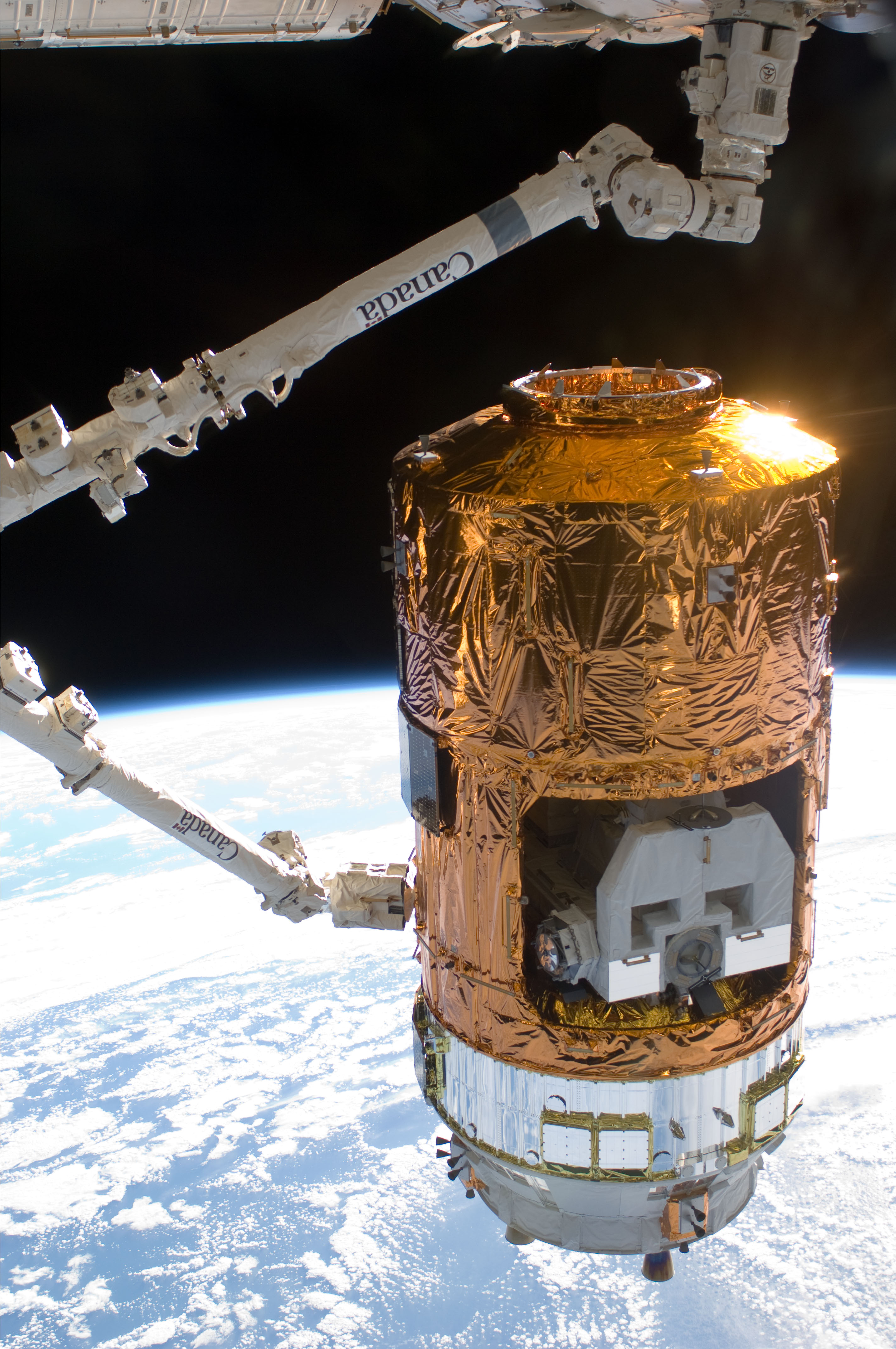 Backdropped by Earth's horizon and the blackness of space, the International Space Station's Canadarm2 grapples the unpiloted Japanese Kounotori2 H-II Transfer Vehicle (HTV2) as it approaches the station. NASA astronaut Catherine (Cady) Coleman and European Space Agency astronaut Paolo Nespoli, both Expedition 26 flight engineers, used the station's robotic arm to attach the HTV2 to the Earth-facing port of the station's Harmony node. The attachment was completed at 9:51 a.m. (EST) on Jan. 27, 2011.